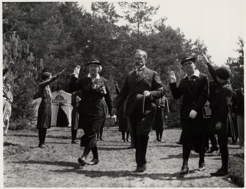 Sofija Kymantaitė-Čiurlionienė, Vladislava Arminaitė and President Antanas Smetona scouts camp.